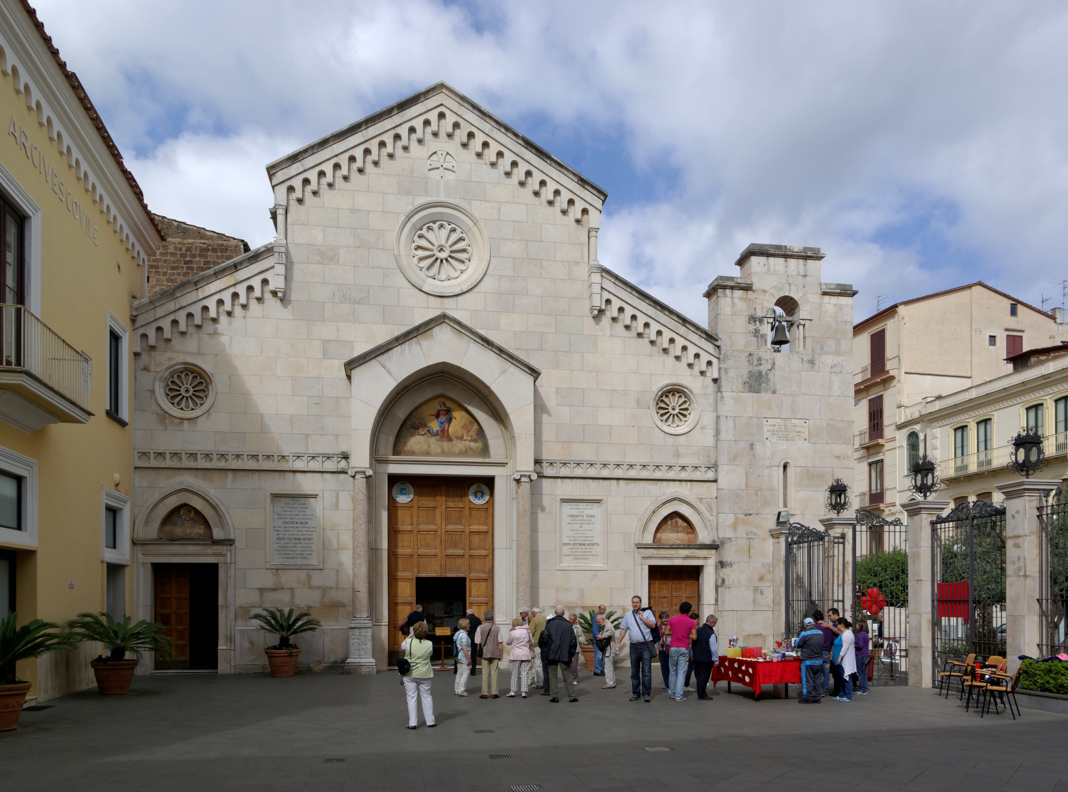 Sorrento, cathedral